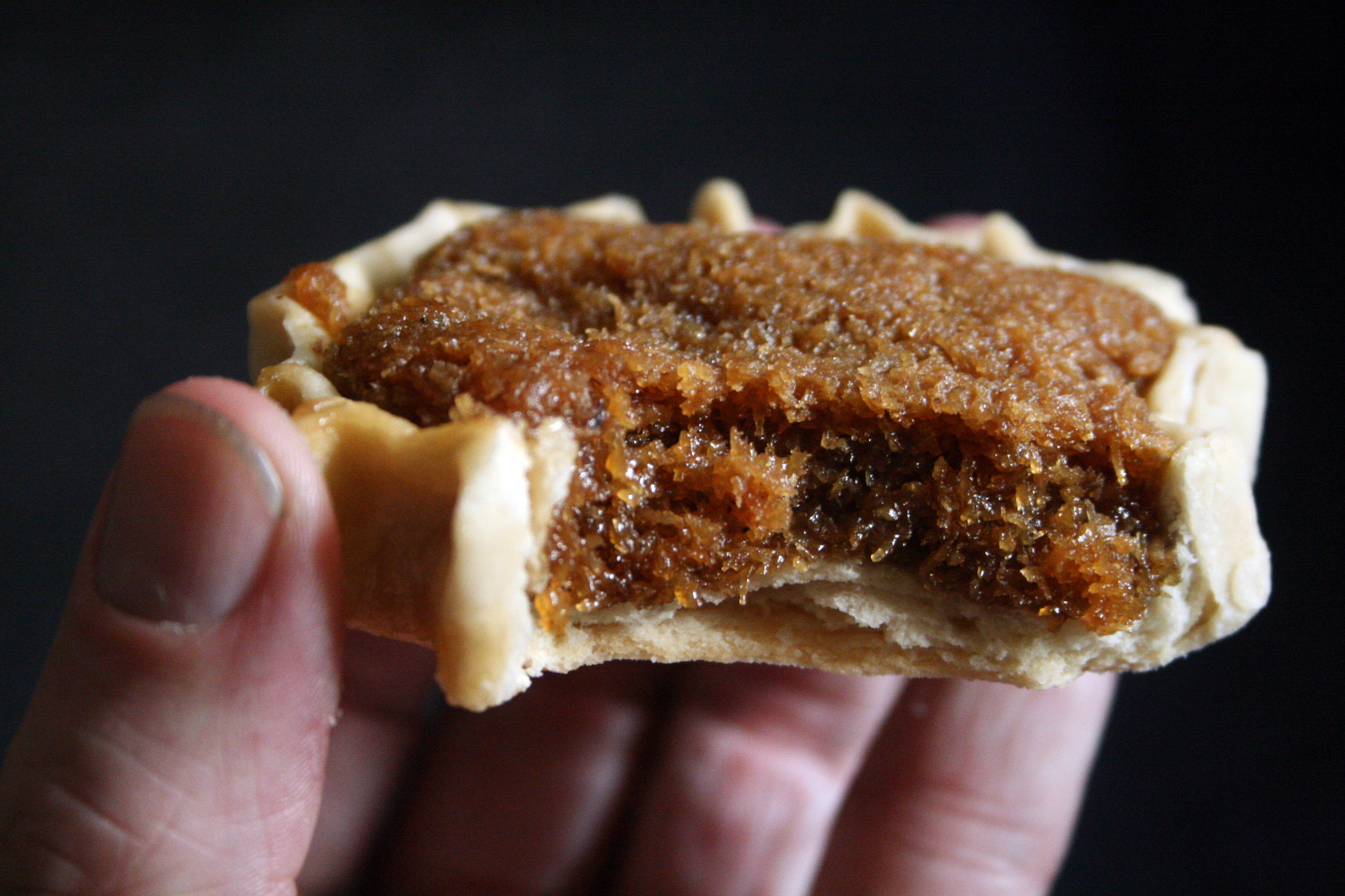 Barbadian gizzarda from the West Indian Day Parade, Eastern Parkway, Brooklyn September 3, 2007. Photo by Eating In Translation (Flickr) attribution required